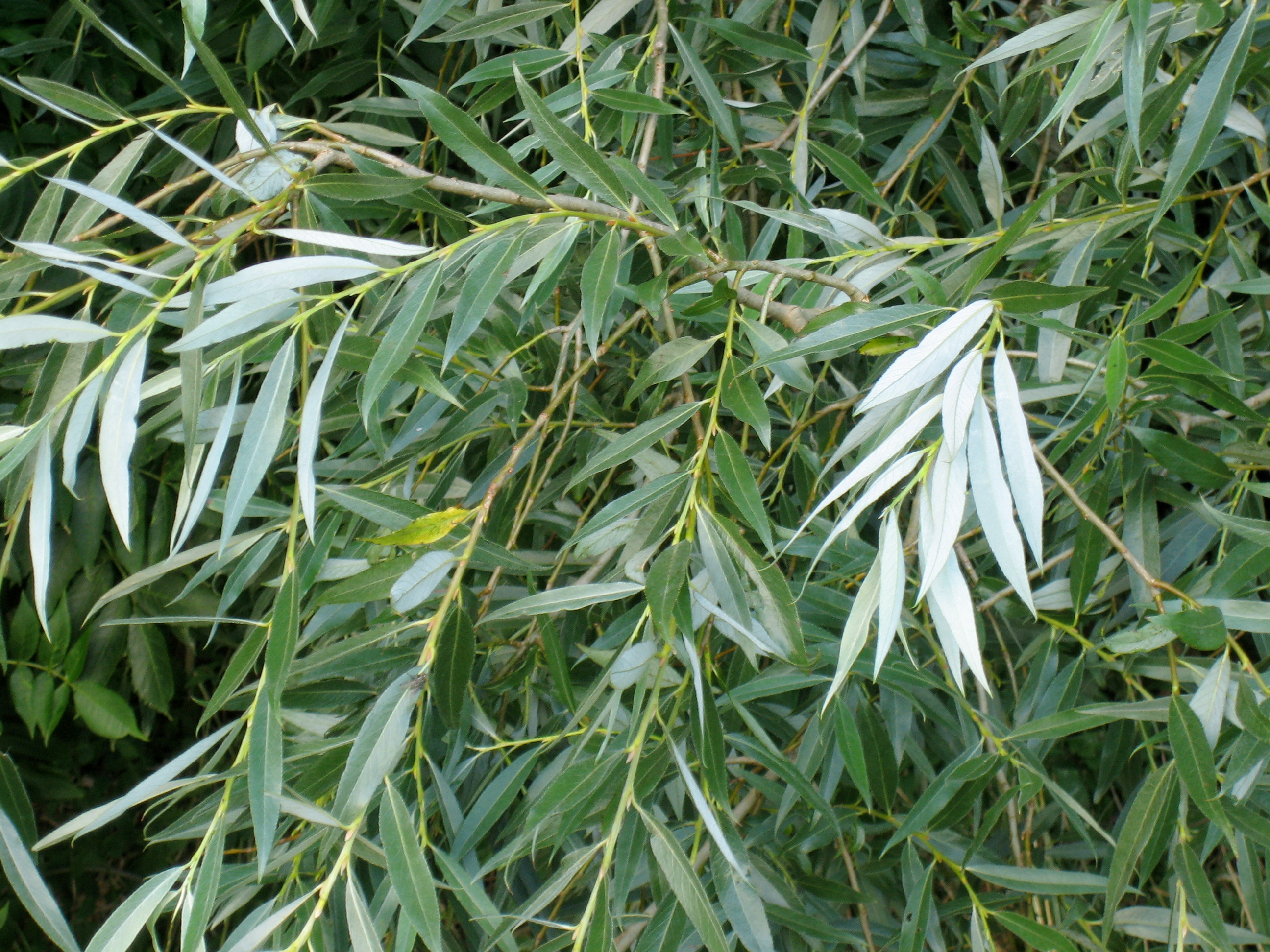 Salix alba leaves - photo MPF